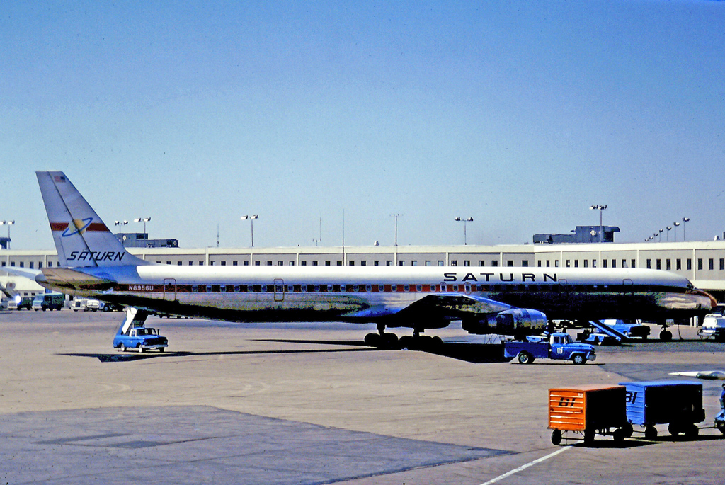 Douglas DC-8-61F N8956U of Saturn Airways at Chicago O'Hare in 1971